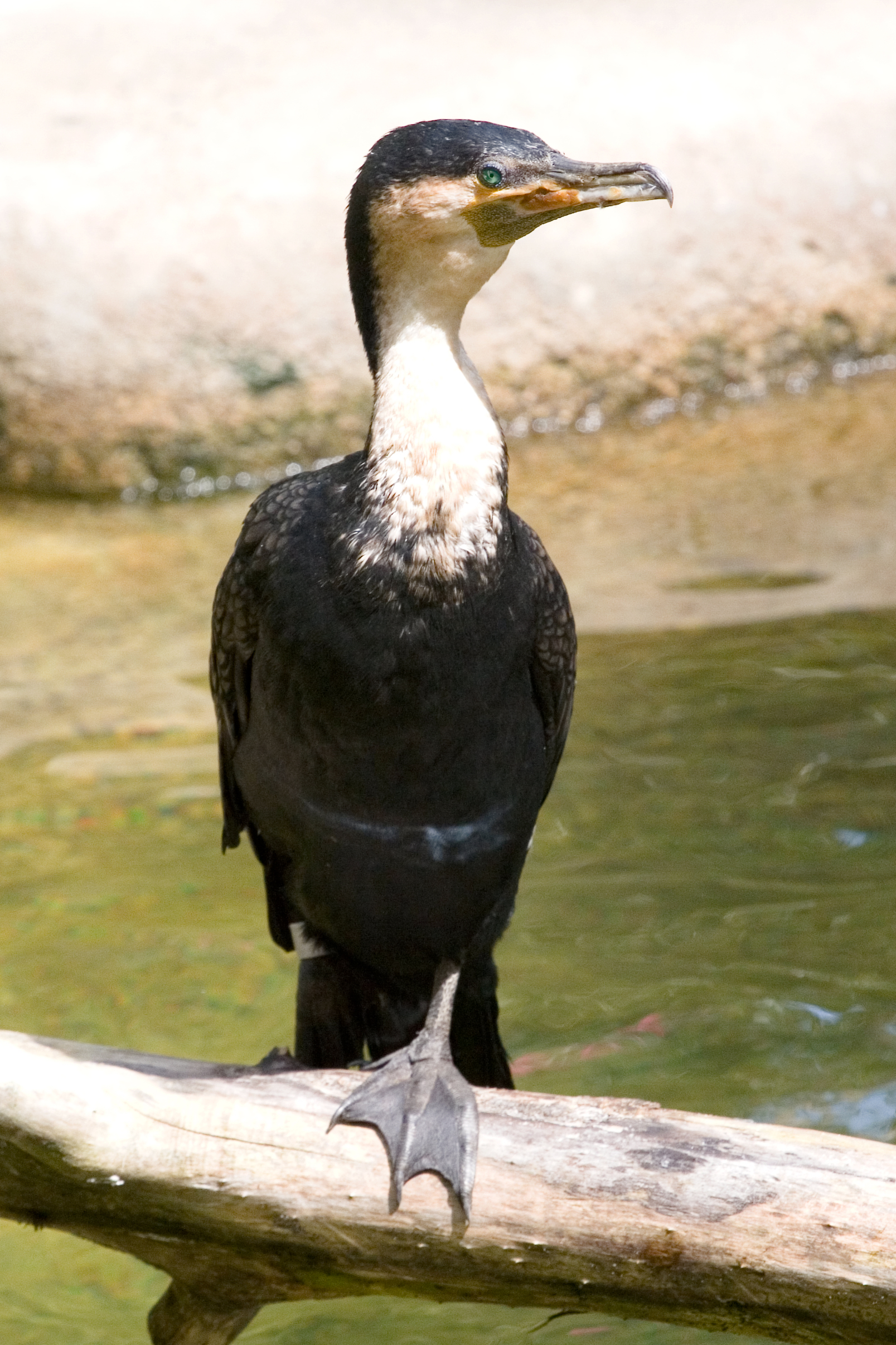 A White-breasted Cormorant at Roger Williams Park Zoo, USA.